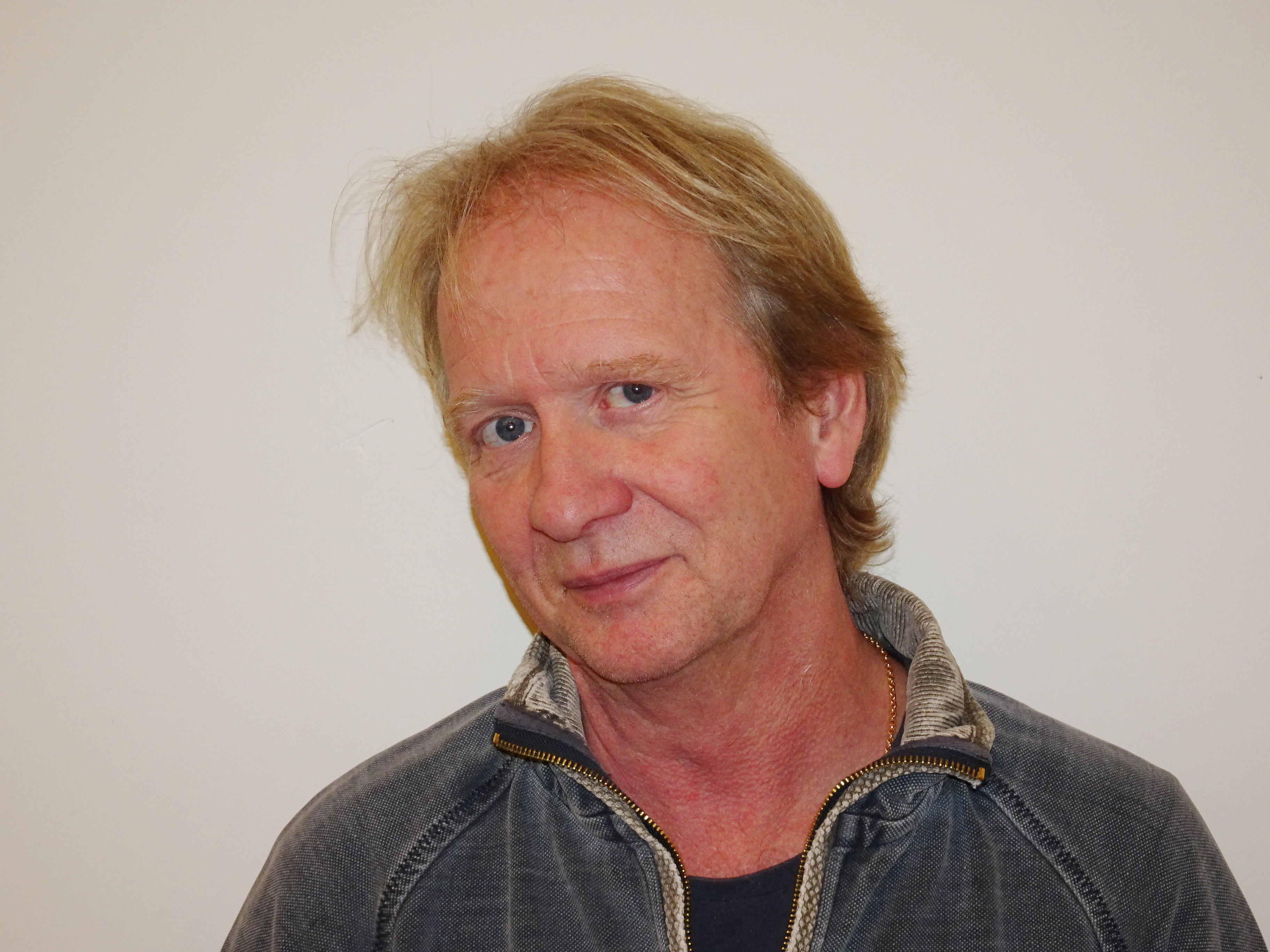 Mats Leijon, a professor and inventor active within electric energy field. Picture taken January 2018. University of Uppsala, Sweden.